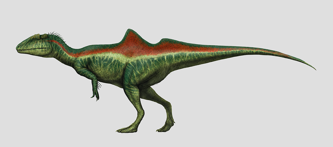 concavenator reconstruction by Mario Lanzas 2019